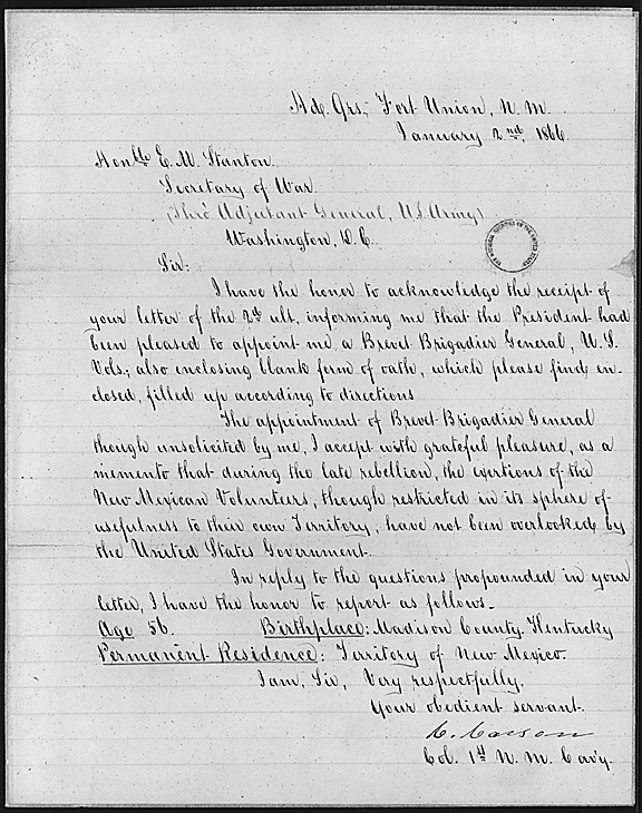 Letter by Christopher 'Kit' Carson to Secretary of War, Edwin M. Stanton, acknowledging his appointment as Brevet Brigardier General at Fort Union, today Fort Union National Monument